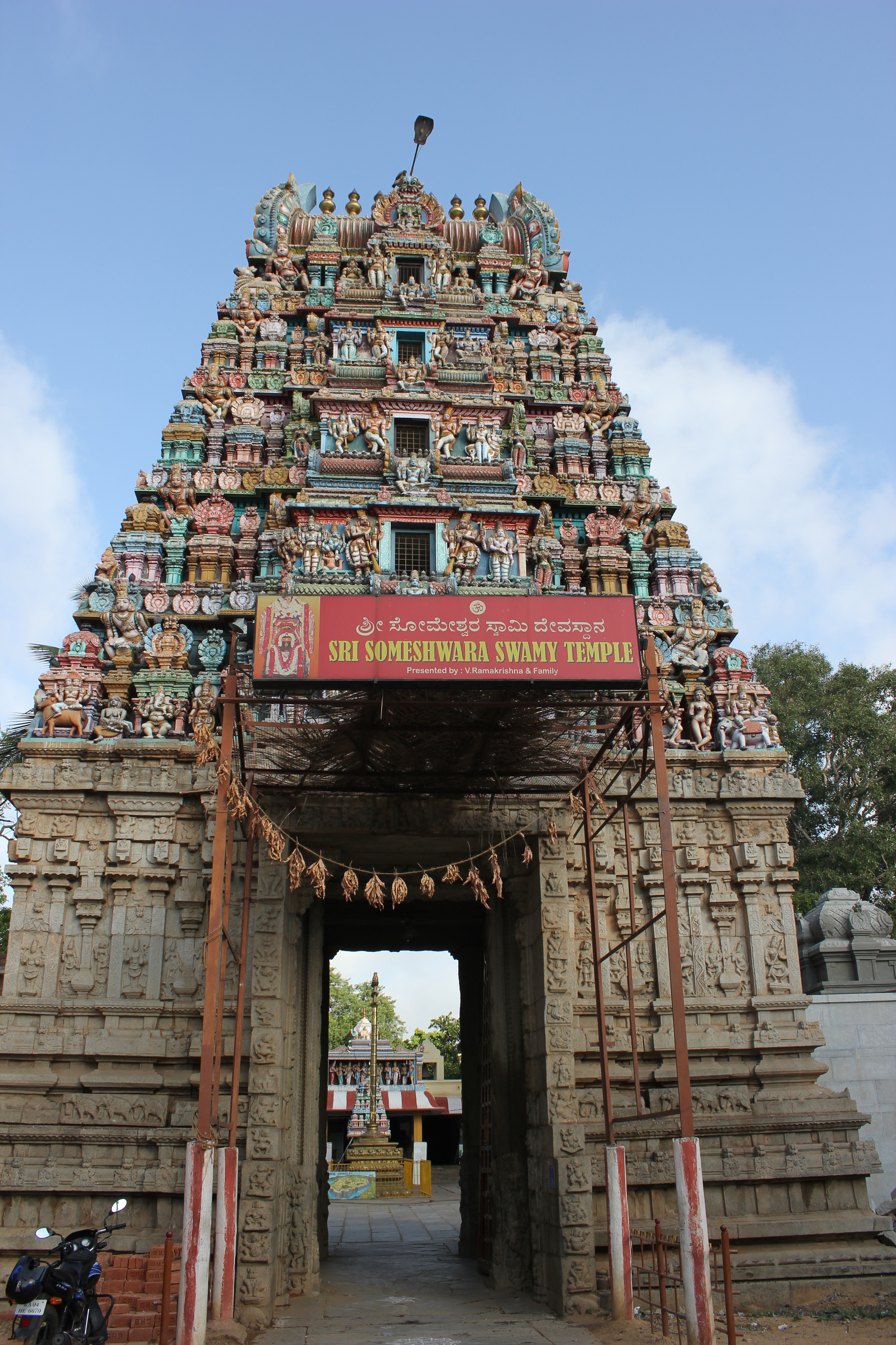 This photograph was taken by me at the Someshwara temple built in the 16th century by Kempe Gowda, the founder of Bengaluru city (Karnataka state, India) and a feudatory of the Vijayanagara empire.